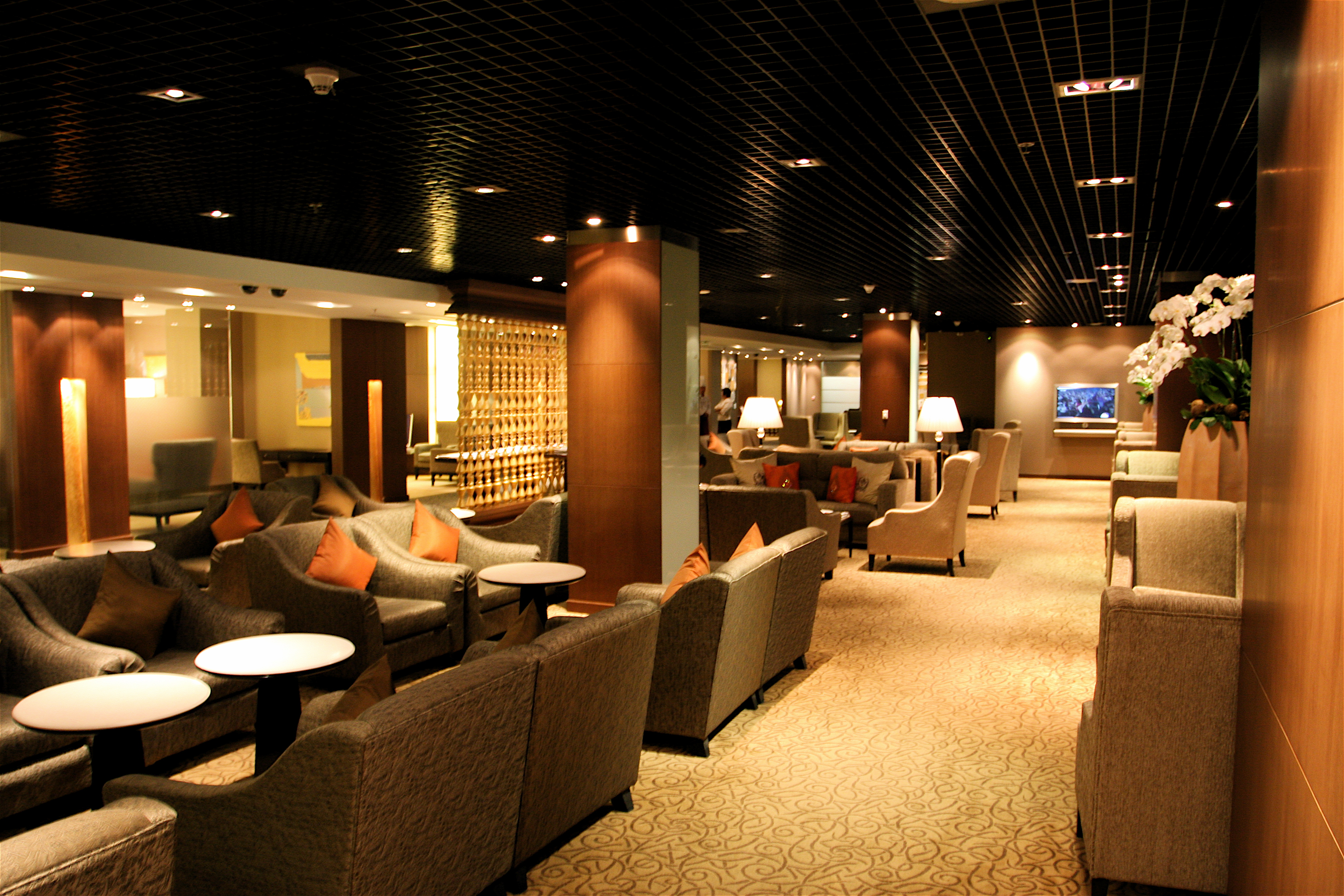 Thai Airways Royal First Lounge at Bangkok Suvarnabhumi Airport